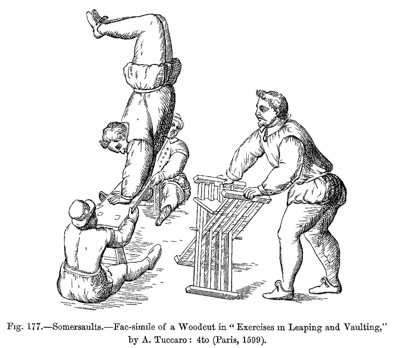 Woodcut of Tumblers, first published in: Archange Tuccarro: „Trois dialogues de l’exercise de sauter et voltiger en l’air“, Paris